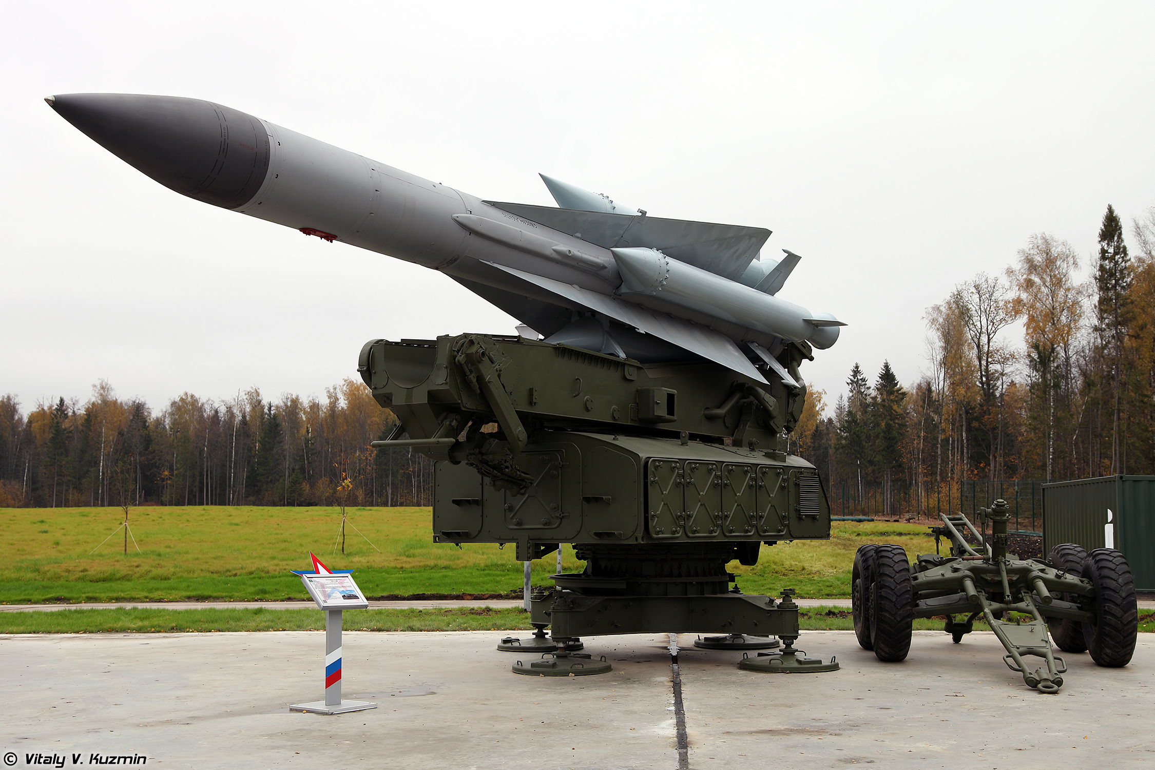 5V28 SAM with 5P72V launcher S-200V Vega system - Park Patriot